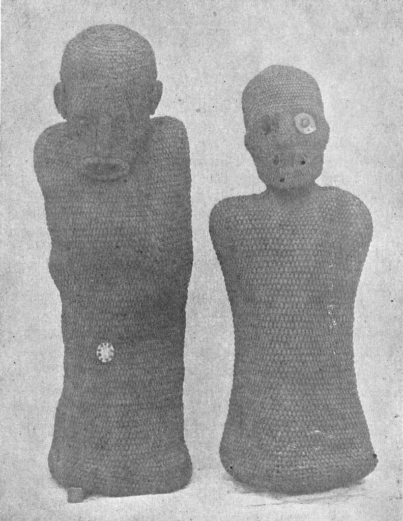 Coir-braided caskets—said to be of Kings Liloa (left) and Lonoikamakahiki. In each the braid is woven tightly around the skull; the other bones are loose in the torso form. The white pieces are mother-of-pearl. Both caskets have suffered damage.